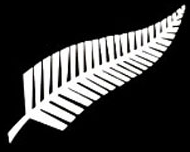 Silver fern used to represent New Zealand